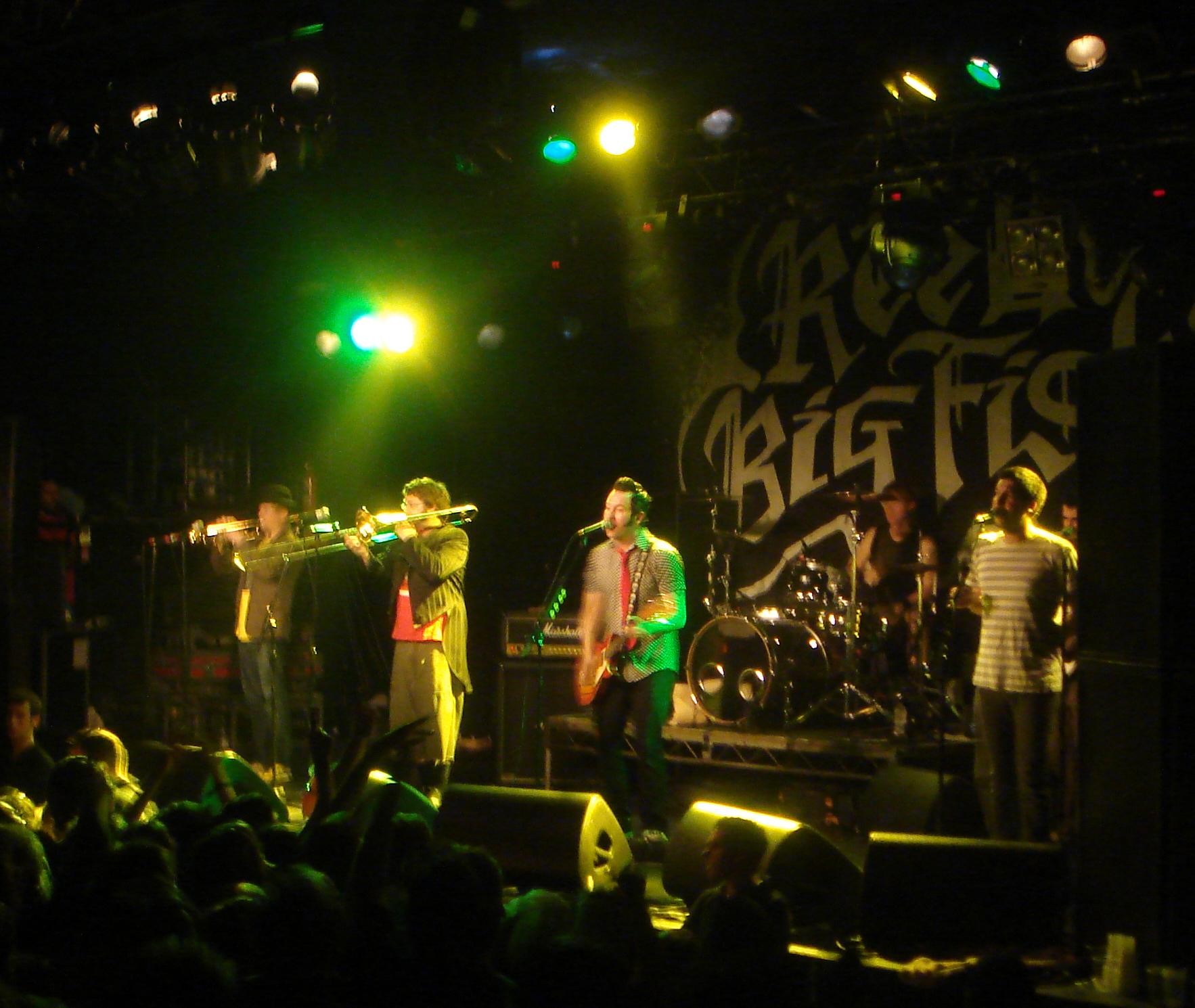 Reel Big Fish performing at Metropolitan University in Leeds, England on February 19, 2008. Left to right: John Christianson (trumpet), Dan Regan (trombone), Aaron Barrett (vocals/guitar), Ryland Steen (drums), and Scott Klopfenstein (trumpet, guitar, backing vocals). Not visible: Derek Gibbs (bass guitar), standing behind Klopfenstein.